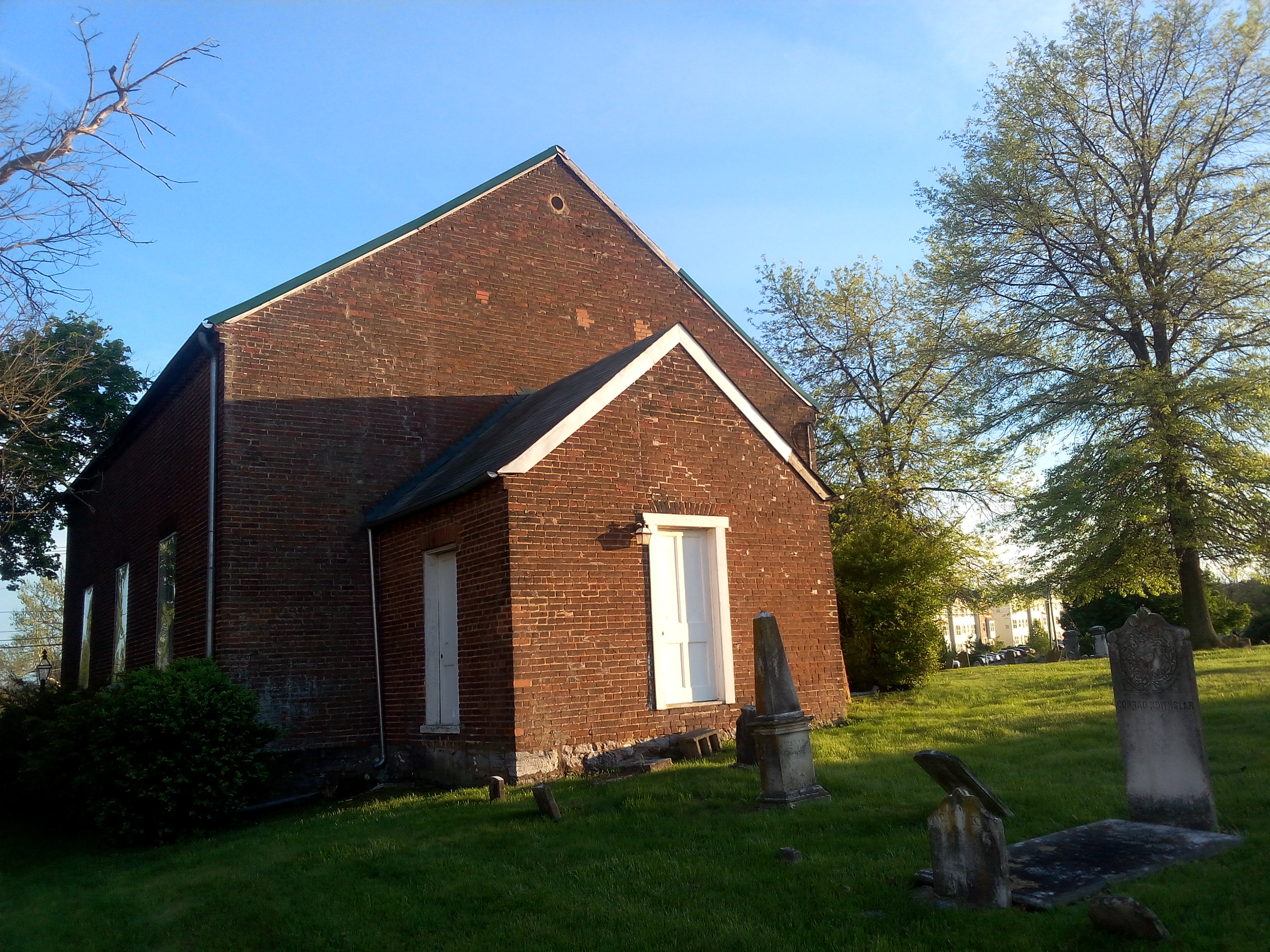 graveyard surrounds historic chapel at rear and west